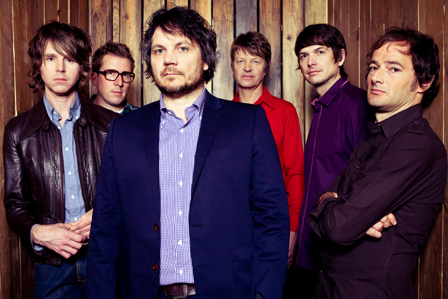 Photo: Austin Nelson. Pictured from left to right - Patrick Sansone, Mikael Jorgensen, Jeff Tweedy , Nels Cline, Glenn Kotche, John Stirratt.